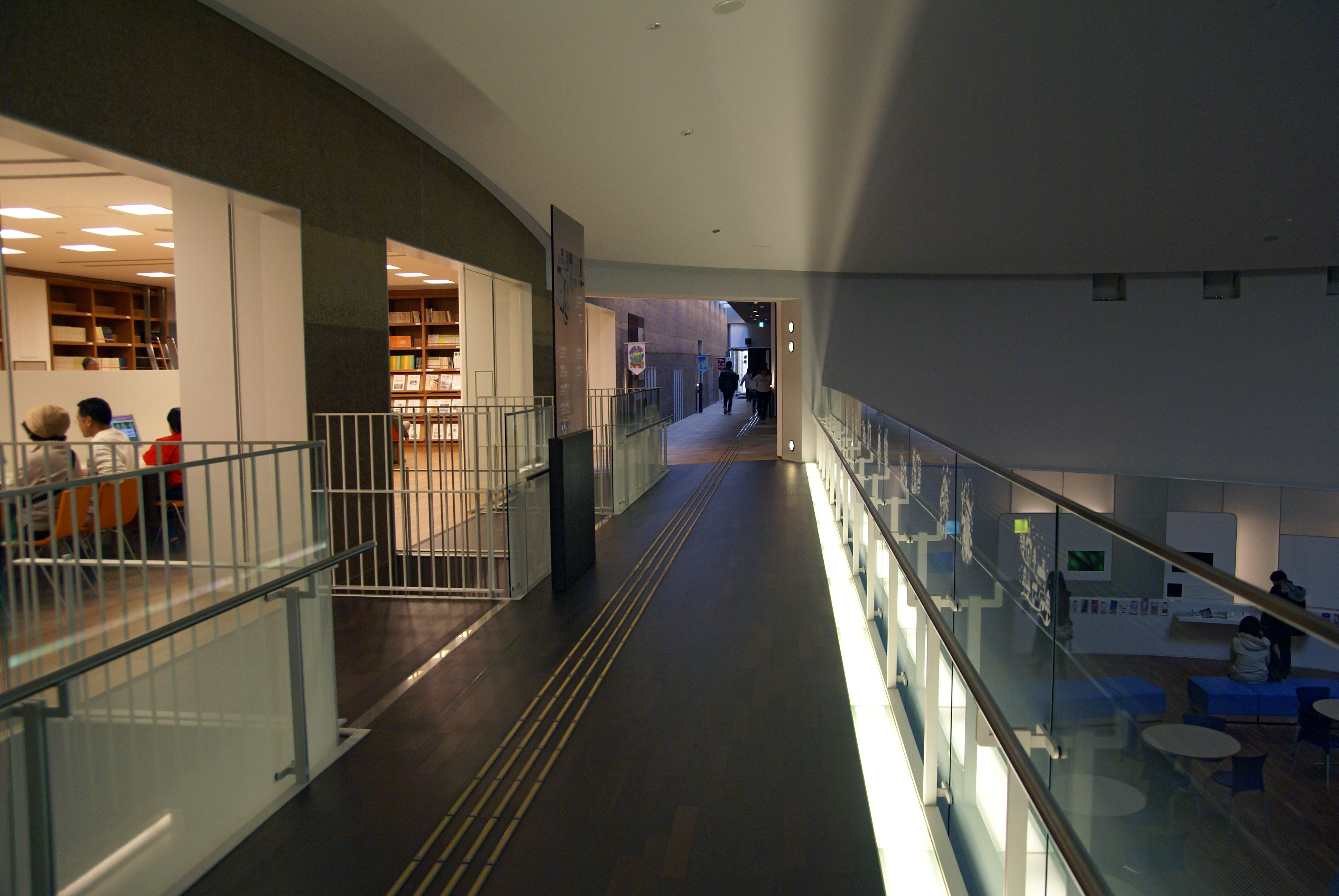 Hyogo Prefectural Museum of Archaeology in Harima, Hyogo prefecture, Japan